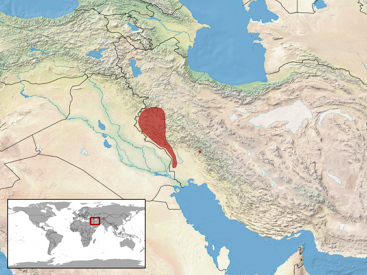 geographic distribution of Pseudocerastes urarachnoides (Native: Iran, Islamic Republic of)